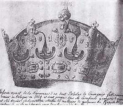 Sketch of the Crown of Bolesław I the Brave